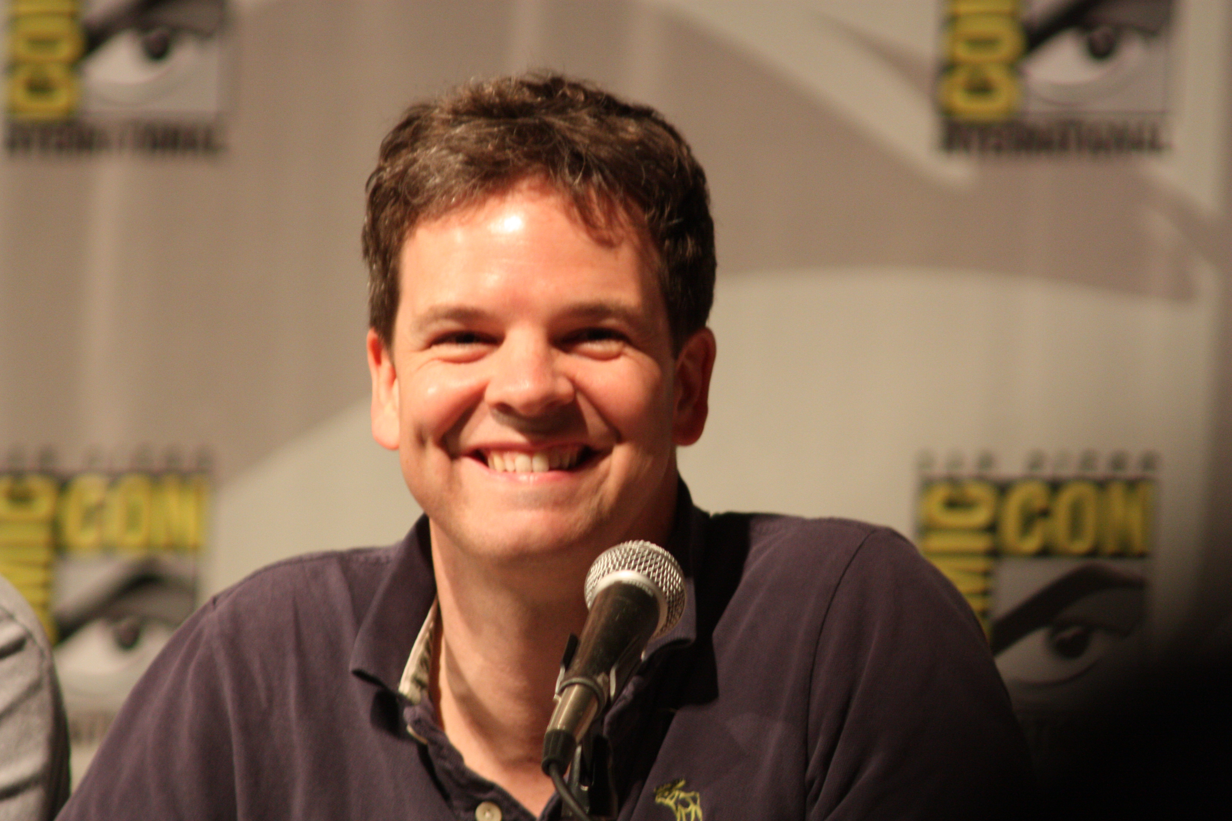 Kevin Shinick on the Robot Chicken at the 2009 Comic Con.